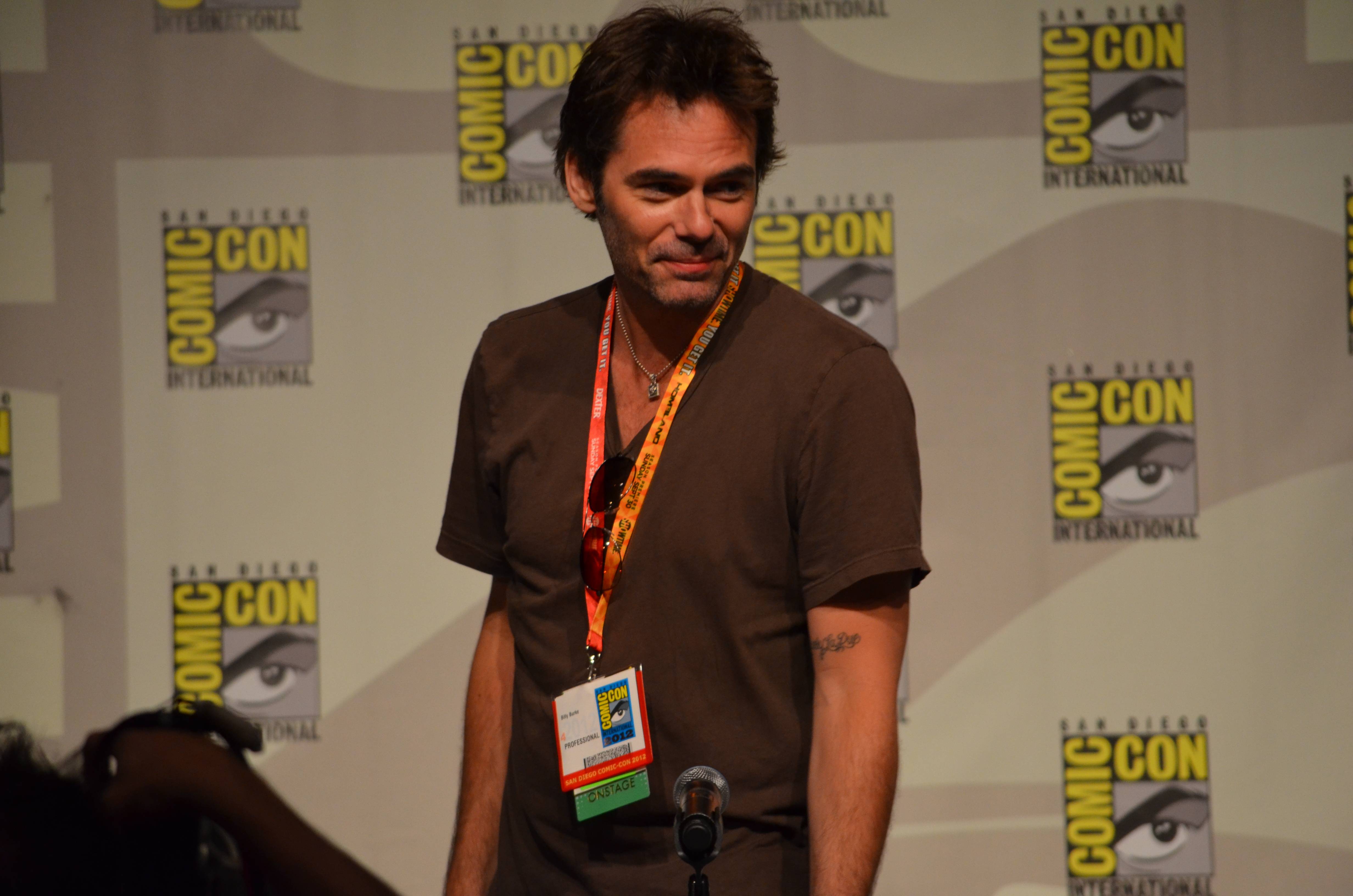 Billy Burke at San Diego International Comic-Con 2012